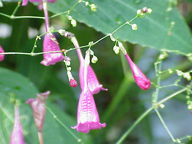 Species: Peristrophe speciosa Family: Acanthaceae Image No. 2